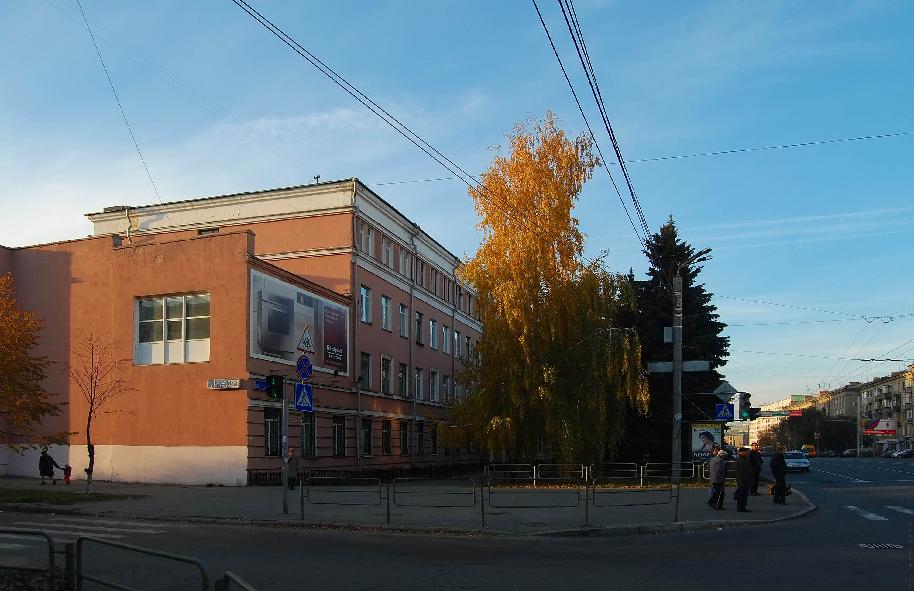 Ulitsa Svobody (Freedom street) in Chelyabinsk, Russia. School number 121.